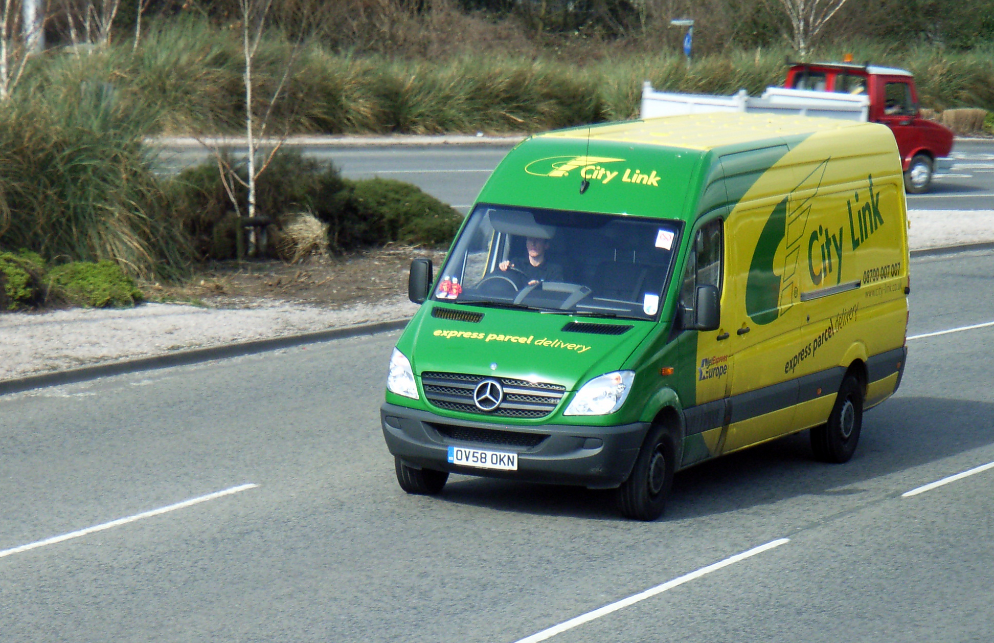 Marsh Mills Plymouth 13 March 2009